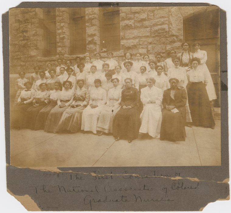 Group portrait of attendees at the first convention of the National Association of Colored Graduate Nurses, Boston, 1909